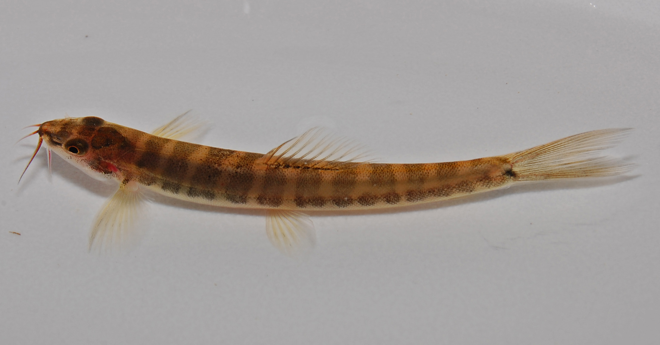 Nemacheilus chrysolaimos (38mm SL). From Cikupret (6°34’S 106°43’E), small stream on Cisadane River drainage. Darmaga, Bogor, West Java, Indonesia